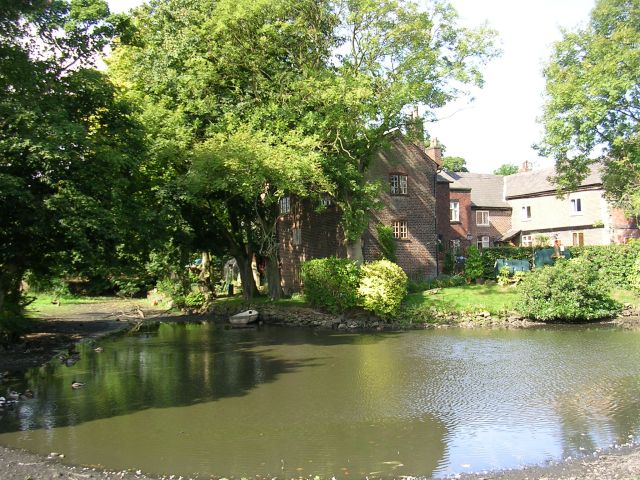 The Moat at Morley's Hall. Morley's Hall is a listed building near Tyldesley to the west of Manchester. On Easter Sunday,1641 Ambrose Barlow, a Roman Catholic priest, was arrested here whilst celebrating a Mass. He was imprisoned and tried at Lancaster and, on 10 September 1641, was hung, drawn and quartered. He was canonised in 1970. His skull is preserved as a relic at nearby Wardley Hall49727